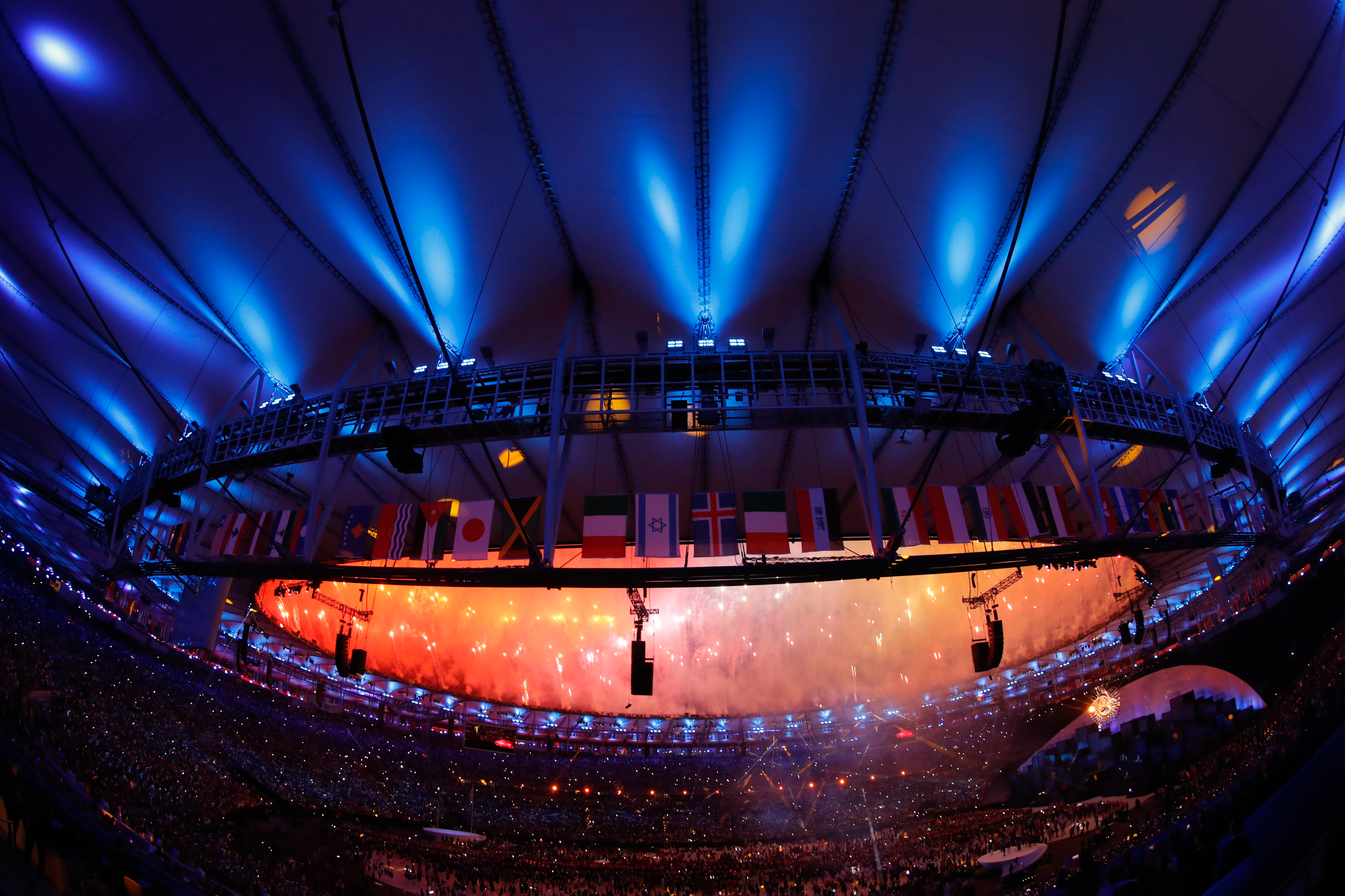 Rio de Janeiro - Cerimônia de abertura dos Jogos Olímpicos Rio 2016 no Estádio do Maracanã. (Fernando Frazão/Agência Brasil)